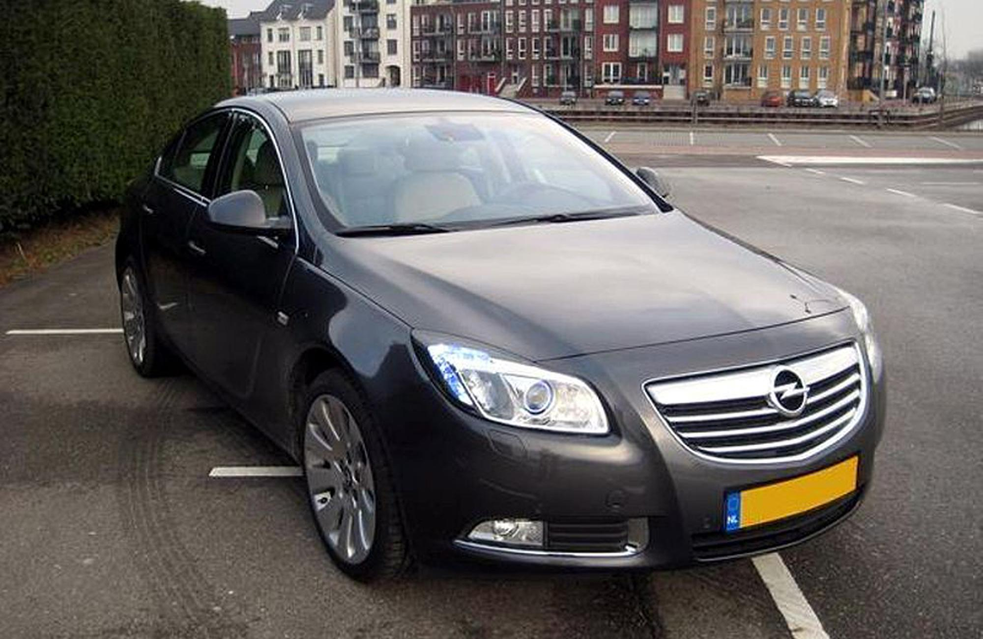 Insignia